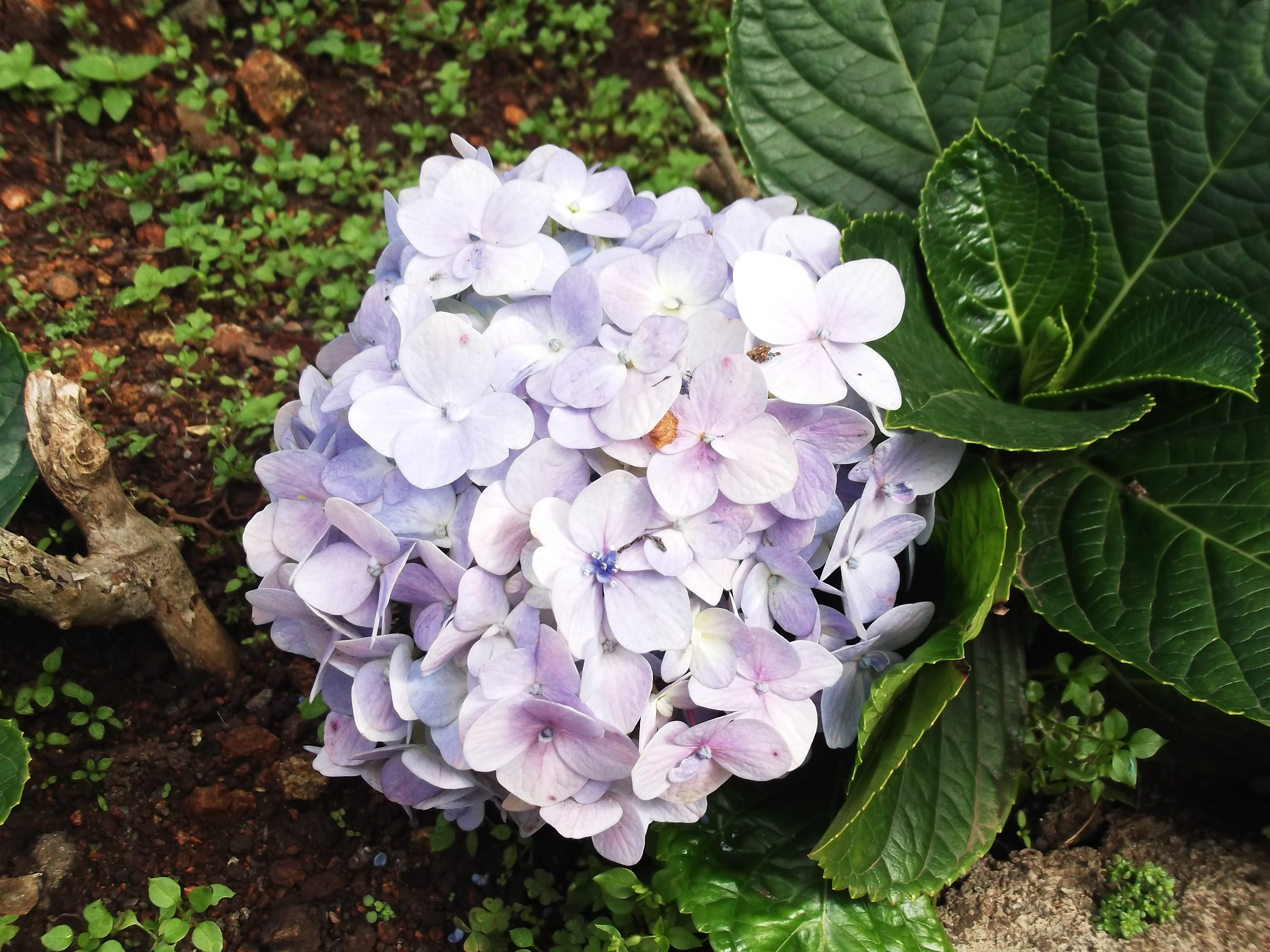 Snowball-ornamental,flower head blue.